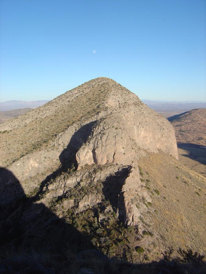 A picture taken from the top of one of the peaks of the Mustang Mountains